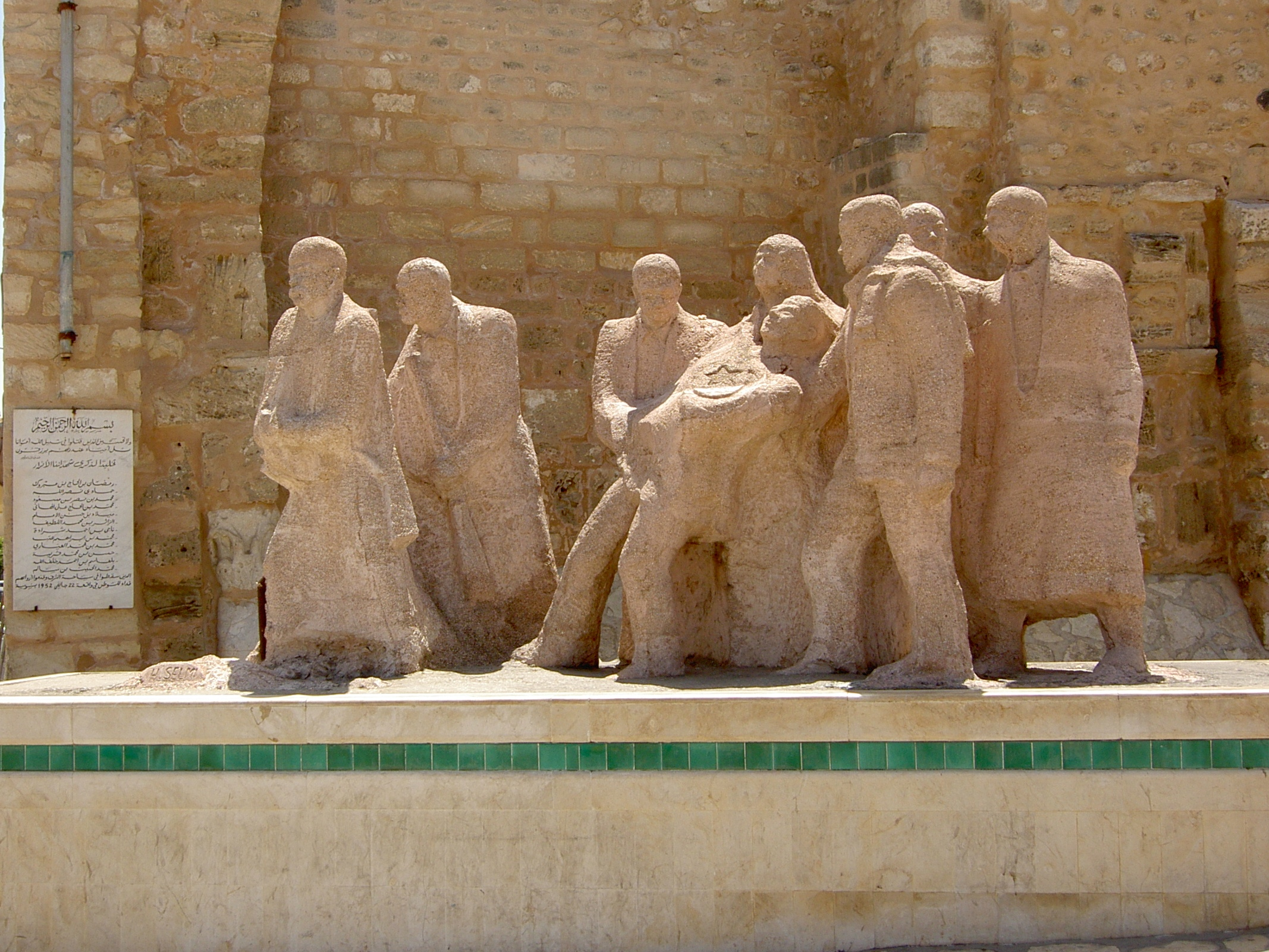 Martyrs Monument from Hedi Selmi (1934-1995) on Bab Jedid square in Sousse, Tunisia